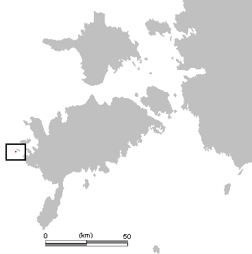 Nootamaa is a little island in Estonia, west from Saaremaa.